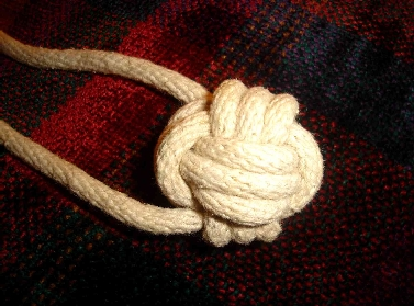 Knot, Monkey's Fist, Stopper knot (Puño de mono), nudo